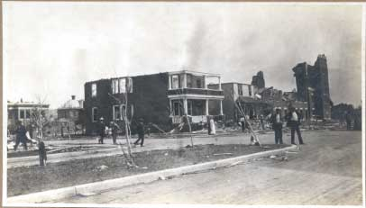 Photo of June 30, 1912 cyclone in Regina, Saskatchewan